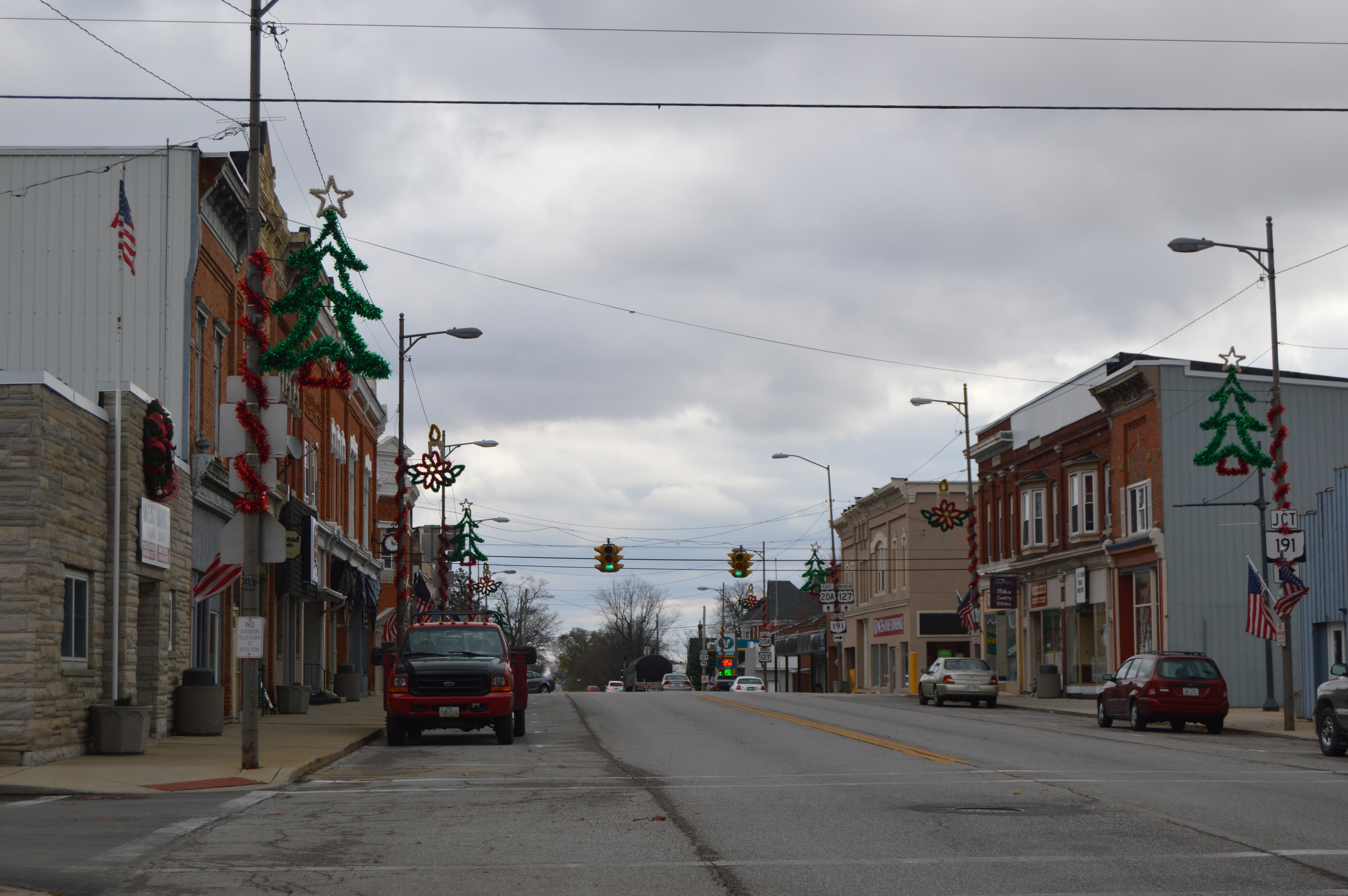 Looking eastward on Jackson Street (U.S. Routes 20 Alternate/127) from the High Street intersection in central West Unity, Ohio, United States.